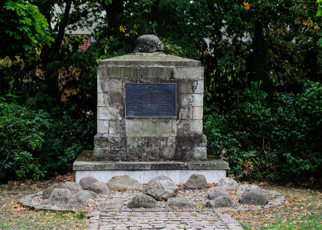 War memorial for the fallen of the 1st World War